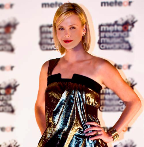 Charlize Theron at the Meteor Ireland Music Awards, 2008